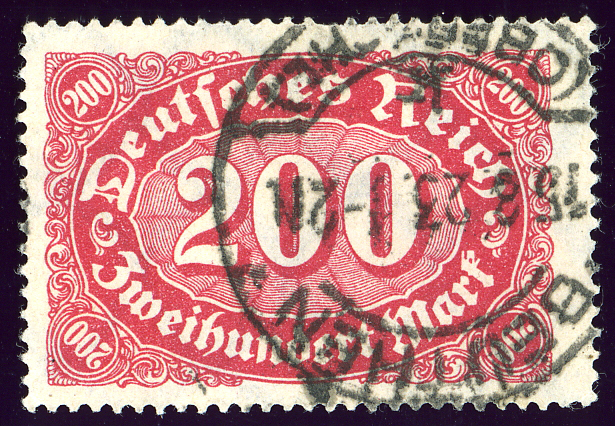 Stamp of Germany, inflation issue February 1923, 200 Mark, cancelled BEUTHEN OBERSCHL on15-8-1923. Michel N°248.